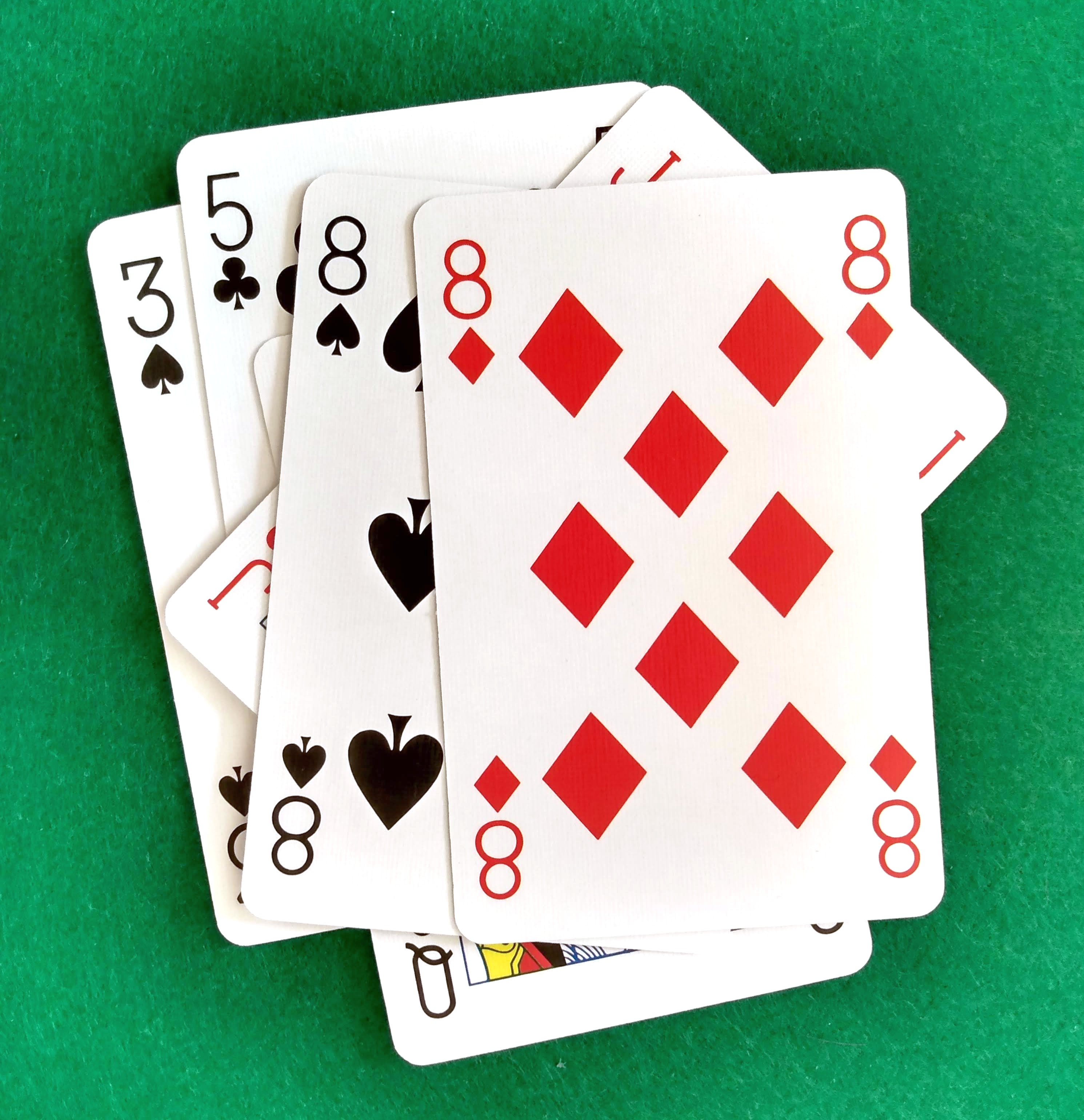 A pile of playing cards with an 8 of Hearts on top.